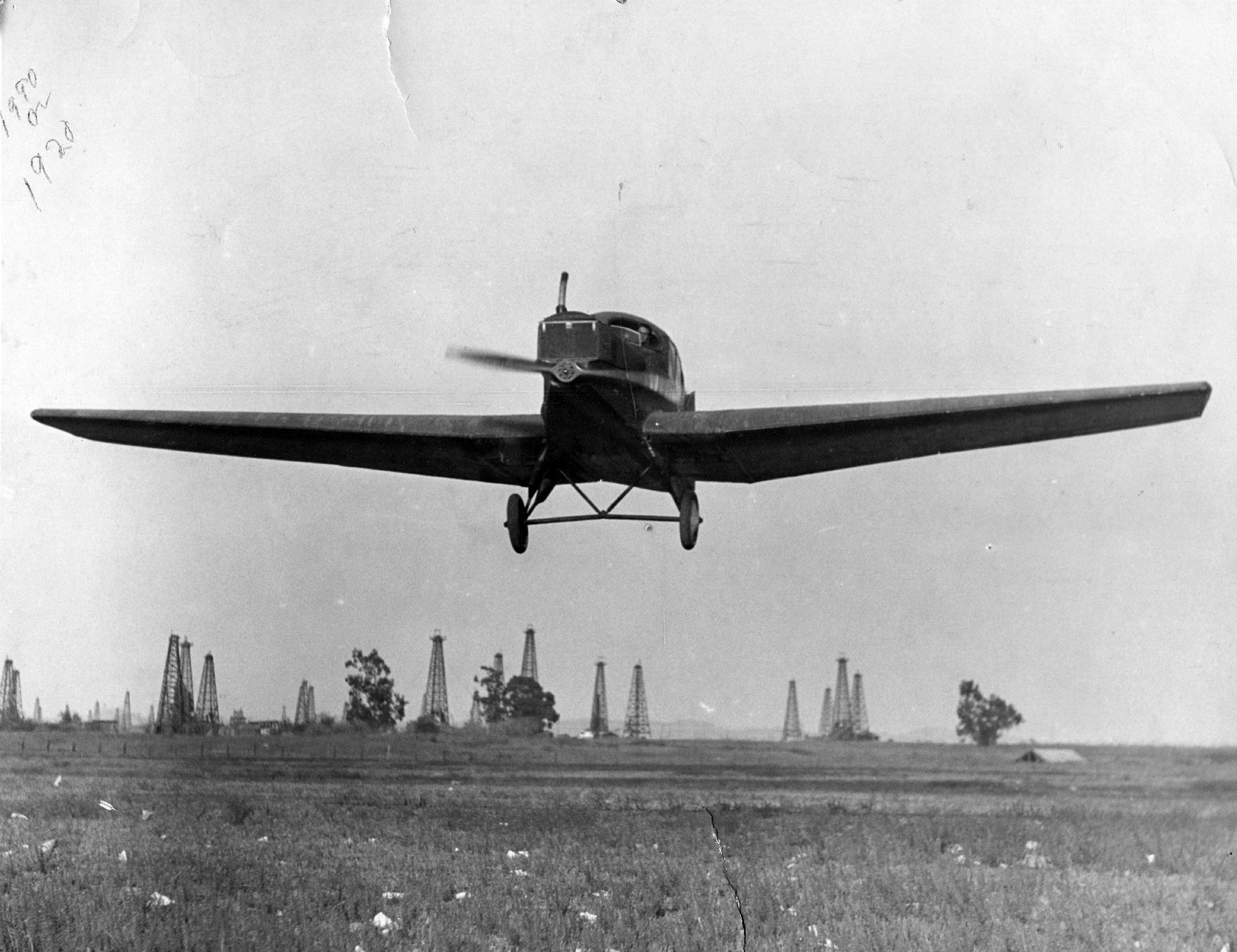 Junkers F.13 , Mercury Field